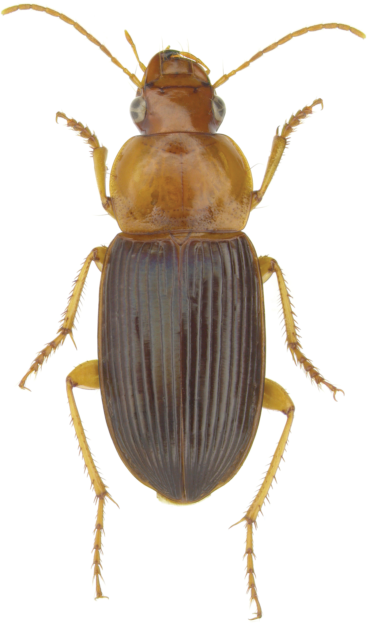 Trichotichnus dichrous (Dejean). This eastern species is color-dimorphic, a phenomenon rarely seen in North American carabids. While most adults have the head and pronotum reddish-yellow and the elytra much darker, a small number of adults are known to be uniformly piceous. When he described the species, Dejean had a single specimen of the common morph. The strong color contrast between the forebody and elytra prompt him to propose the name dichrous, from the Greek prefix di- (two) and chroma (color of the skin).